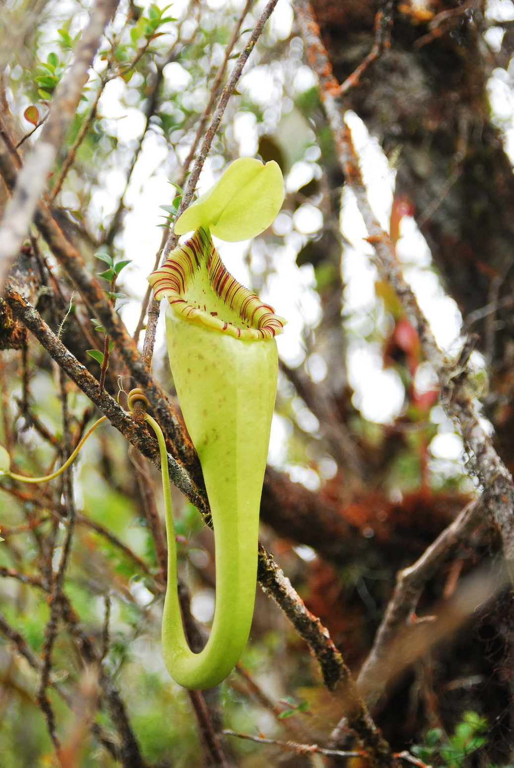 Nepenthes ovata, North Sumatra